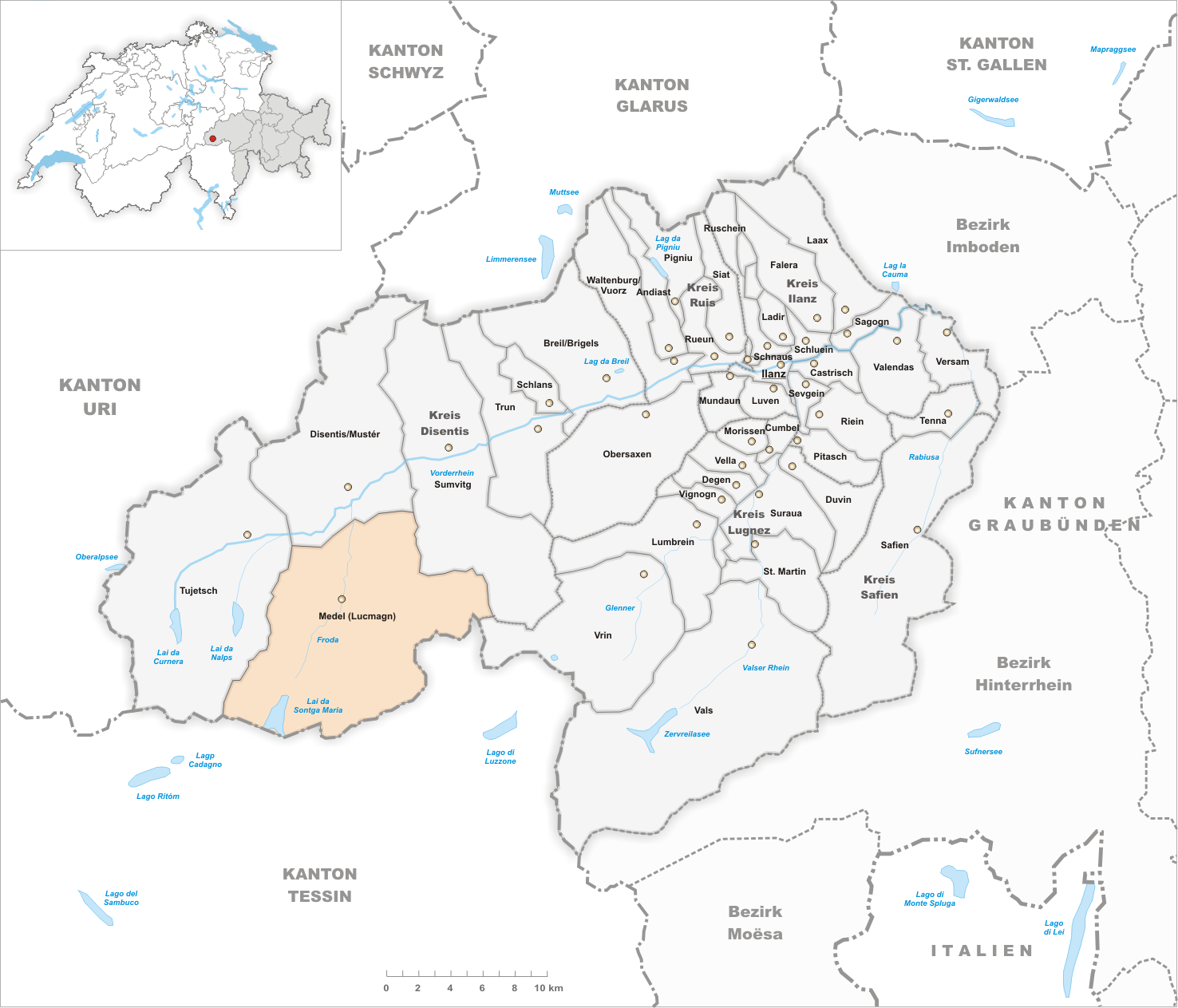 Municipality Medel (Lucmagn)